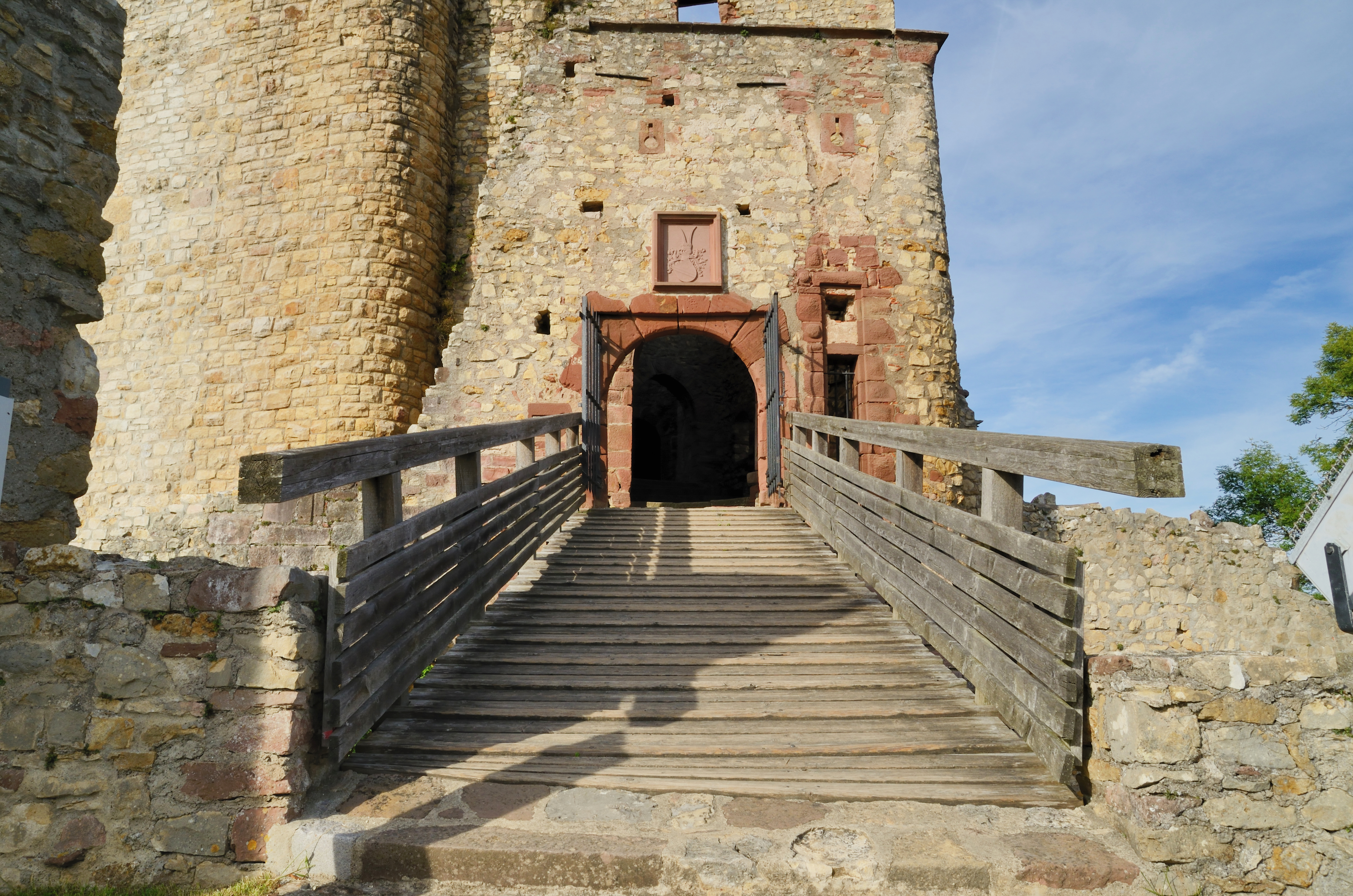 Rötteln Castle: upper part